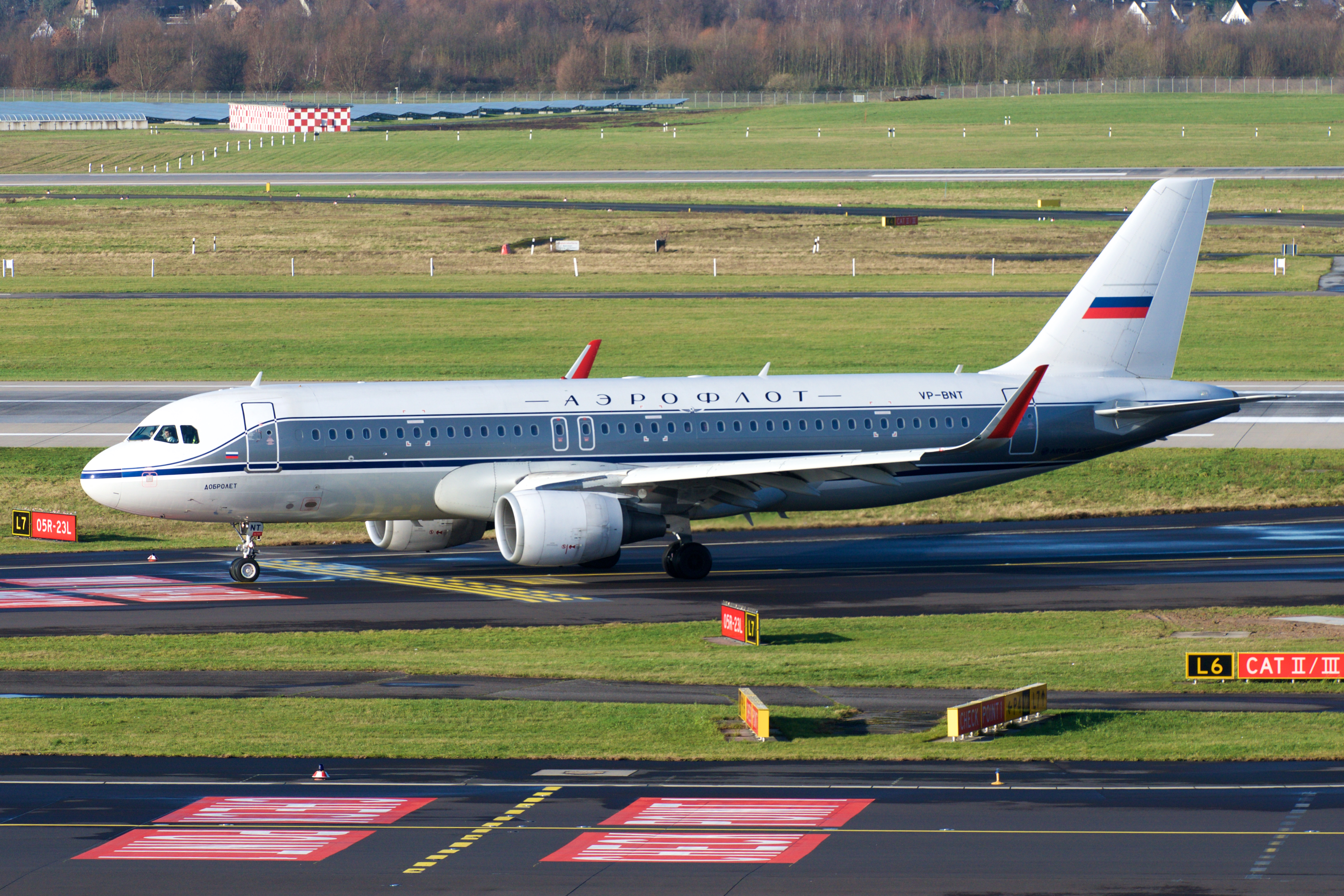 Aeroflot retro scheme. Named Добролёт